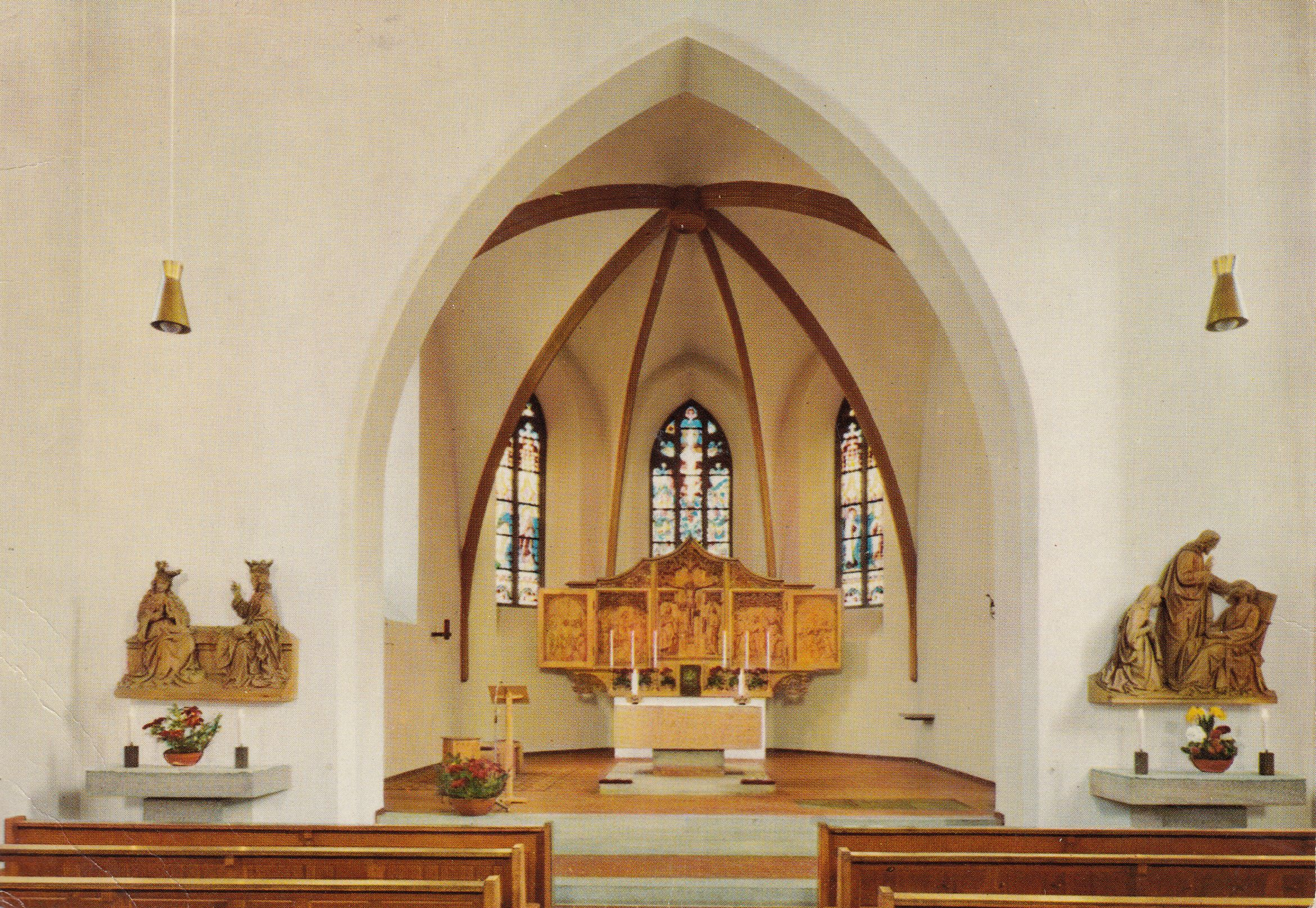 Pfarrkirche St. Blasius in Buchenbach im Schwarzwald nach der Purifizierung ca. 1970